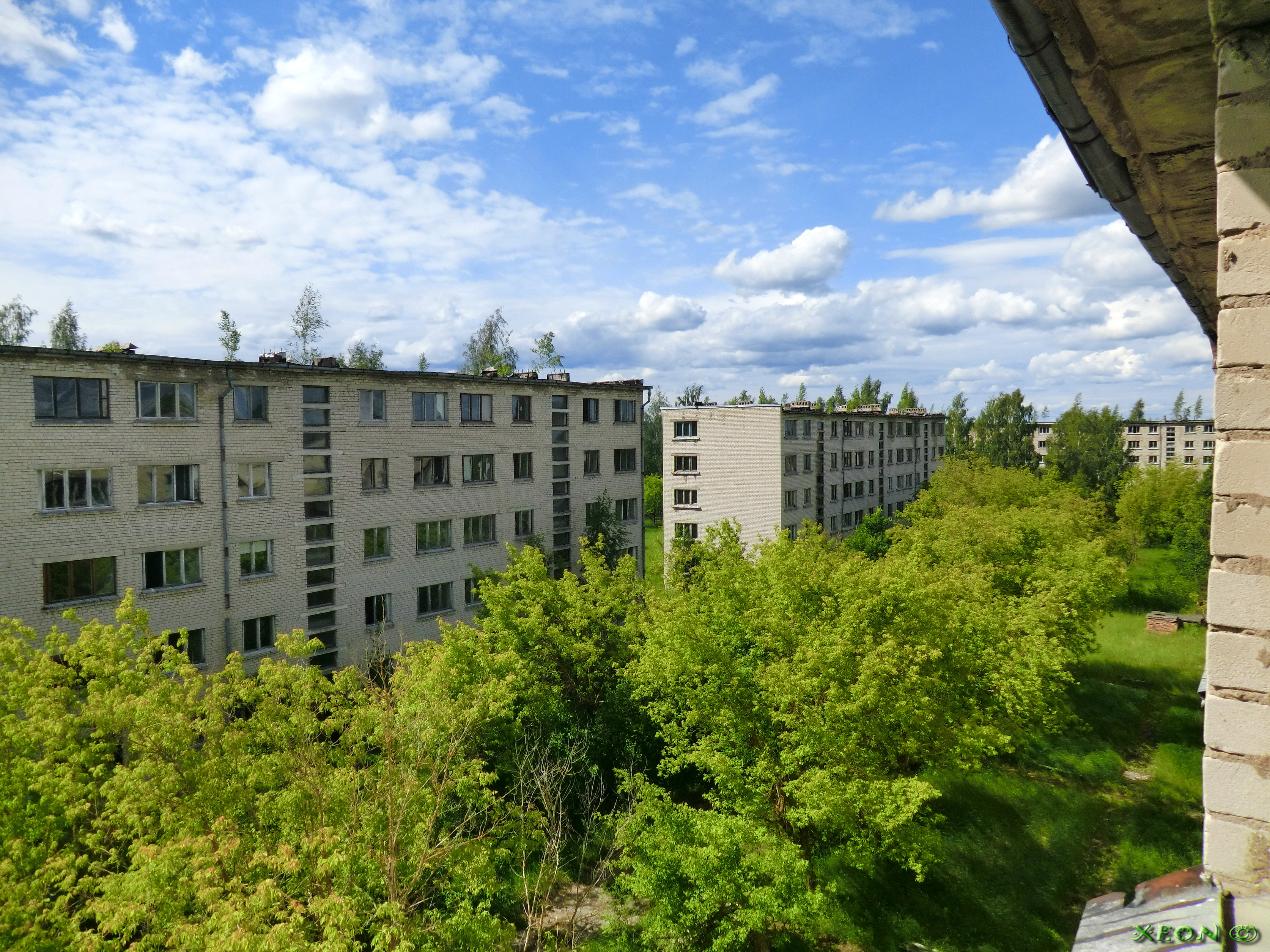 Skrunda 1 - Empty City